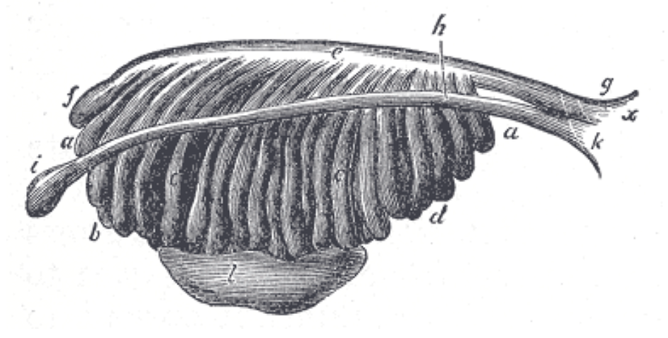 Enlarged view from the front of the left Wolffian body before the establishment of the distinction of sex. (From Farre, after Kobelt.) a, a, b, c, d. Tubular structure of the Wolffian body. e. Wolffian duct. f. Its upper extremity. g. Its termination in x, the urogenital sinus. h. The duct of Müller. i. Its upper, funnel-shaped extremity. k. Its lower end, terminating in the urogenital sinus. l. The genital gland.